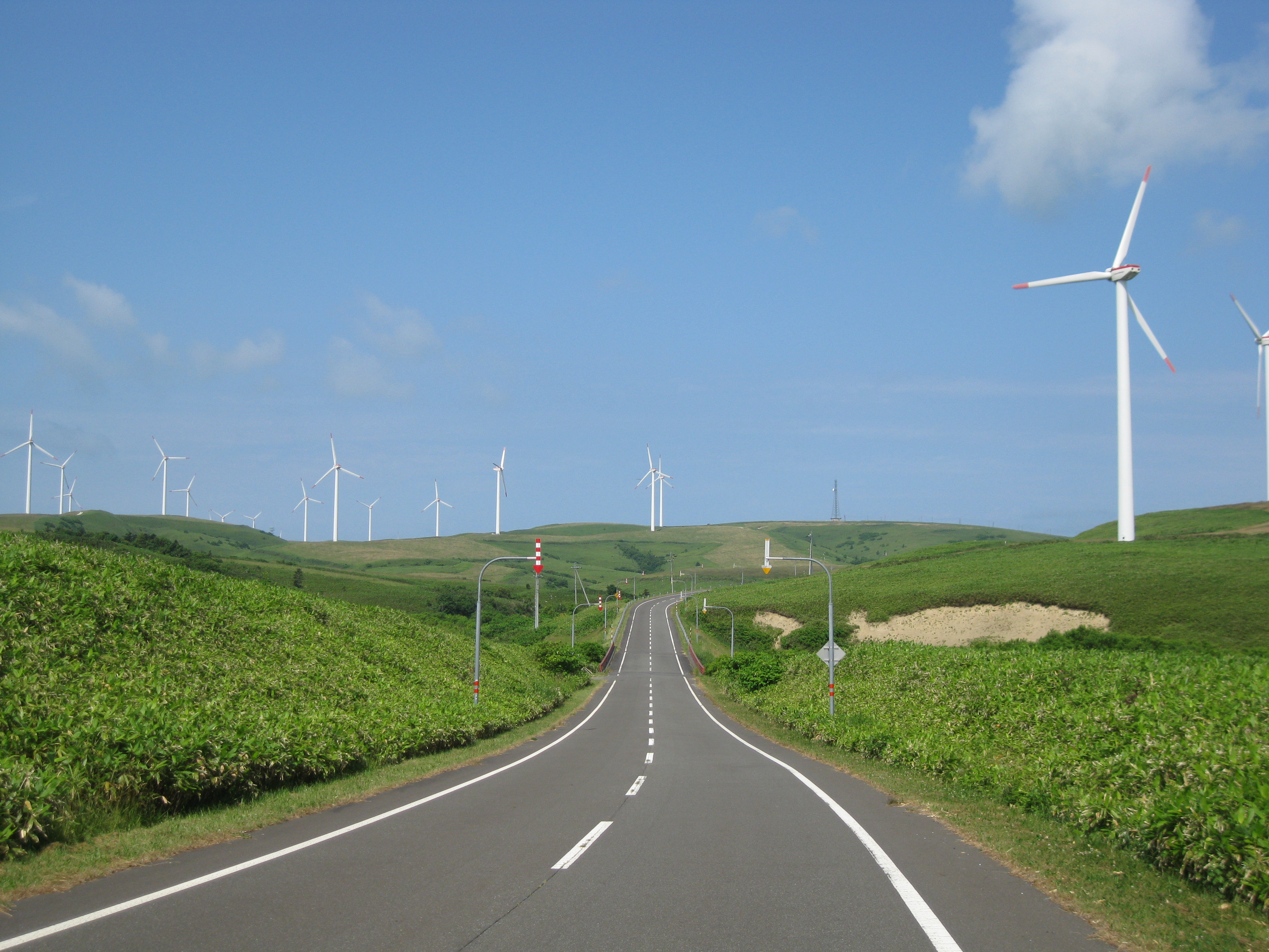 Soyamisaki (Cape Soya) Wind Farm in Wakkanai City, Hokkaido, Japan